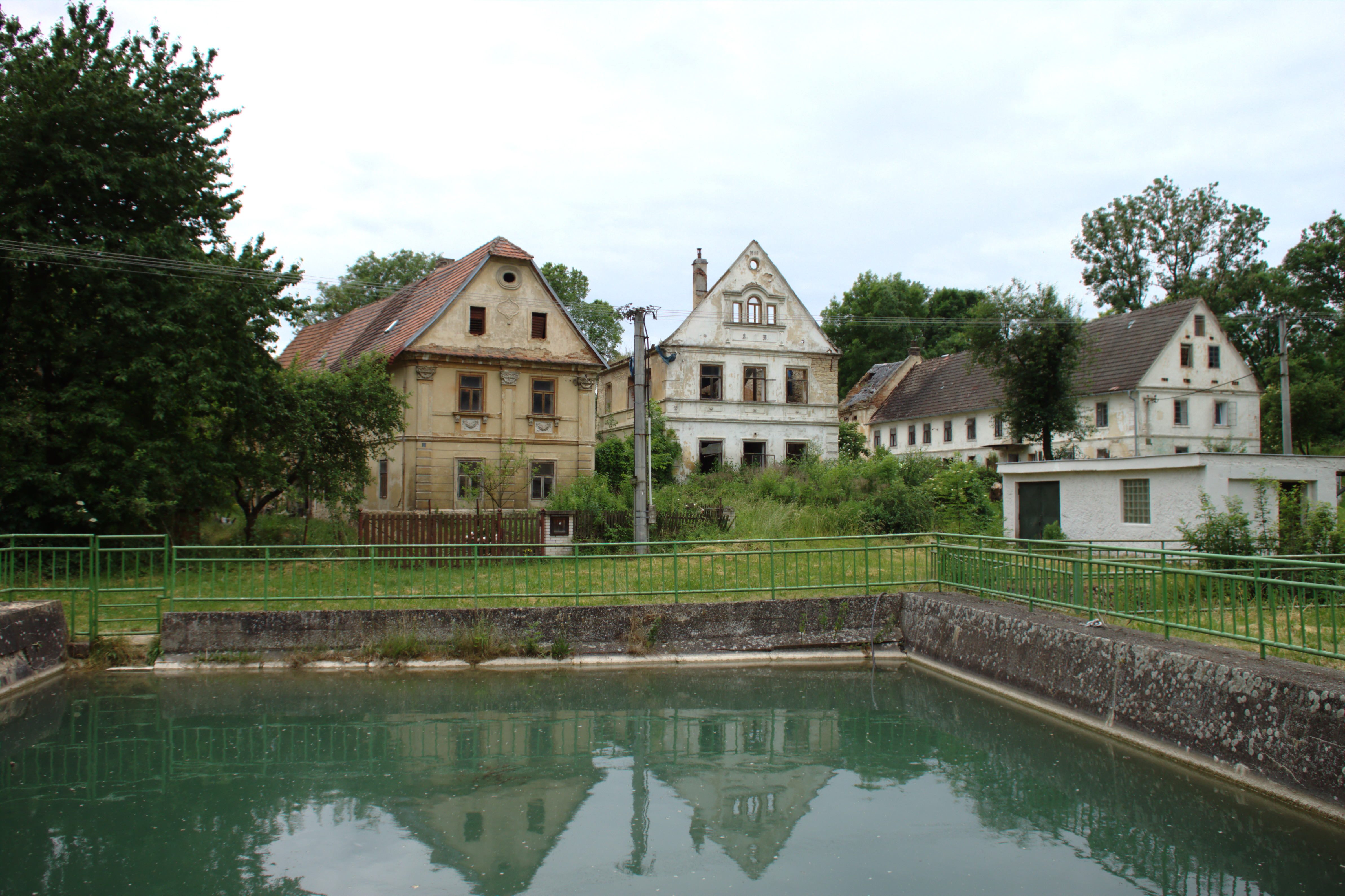 Buildings on a common in the village of Břehoryje, Ústí Region, CZ